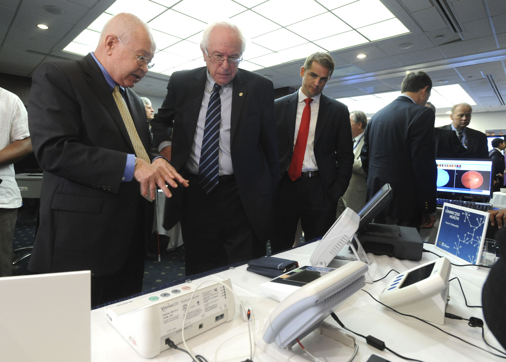 Dr. Robert A. Petzel, VA Under Secretary for Health, Senator Bernie Sanders, Chairman of the Senate Veterans Affairs Committee and Dr. Tommy Sowers, VA Assistant Secretary for Public and Intergovernmental Affairs, view the latest home telehealth technology which involves equipping Veterans with monitors. Health information is exchanged from the Veteran’s home or other location to the VA care setting, thus alleviating the constraints of time and distance.